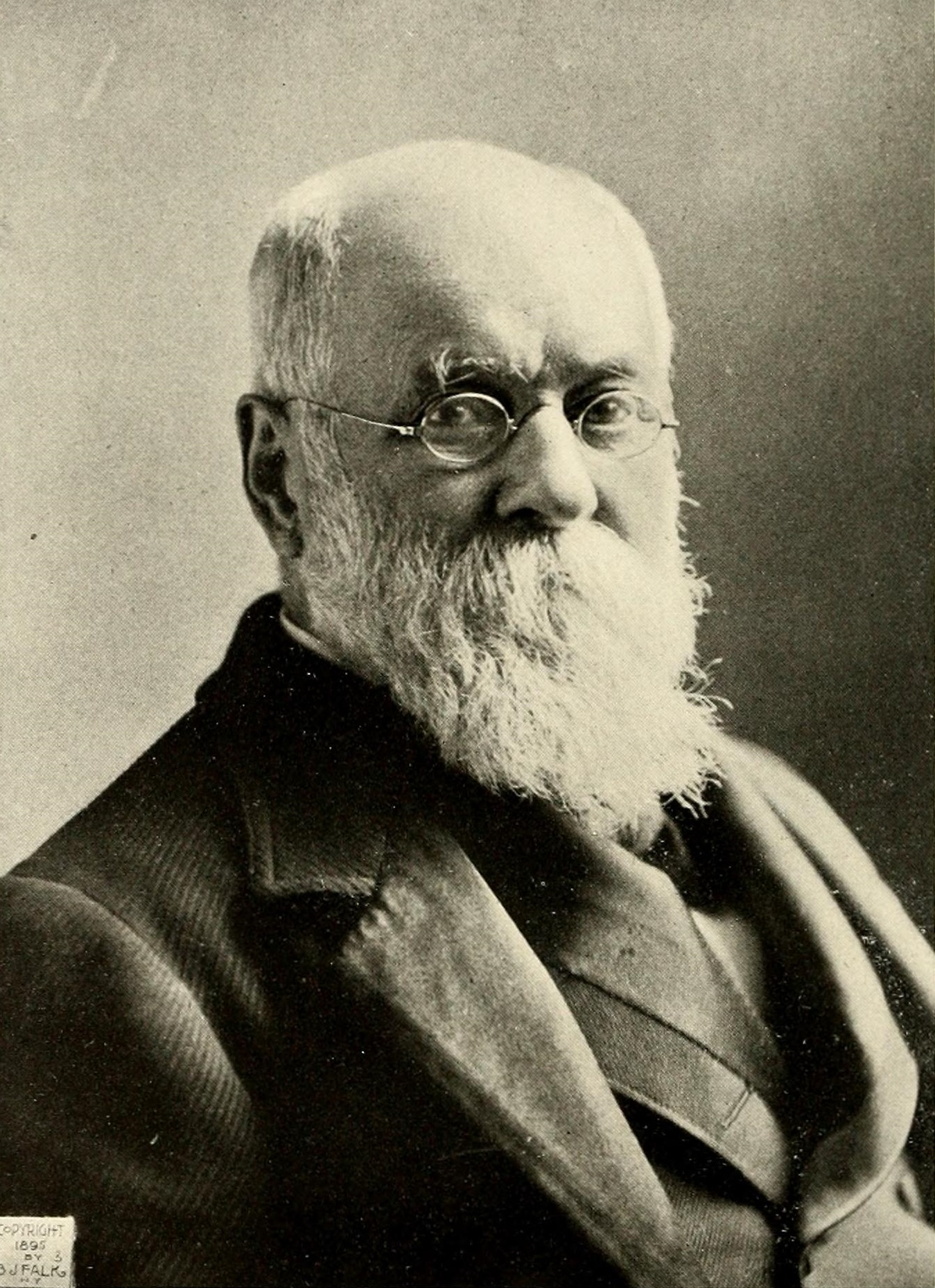 Portrait of Charles Anderson Dana by B. J. Falk